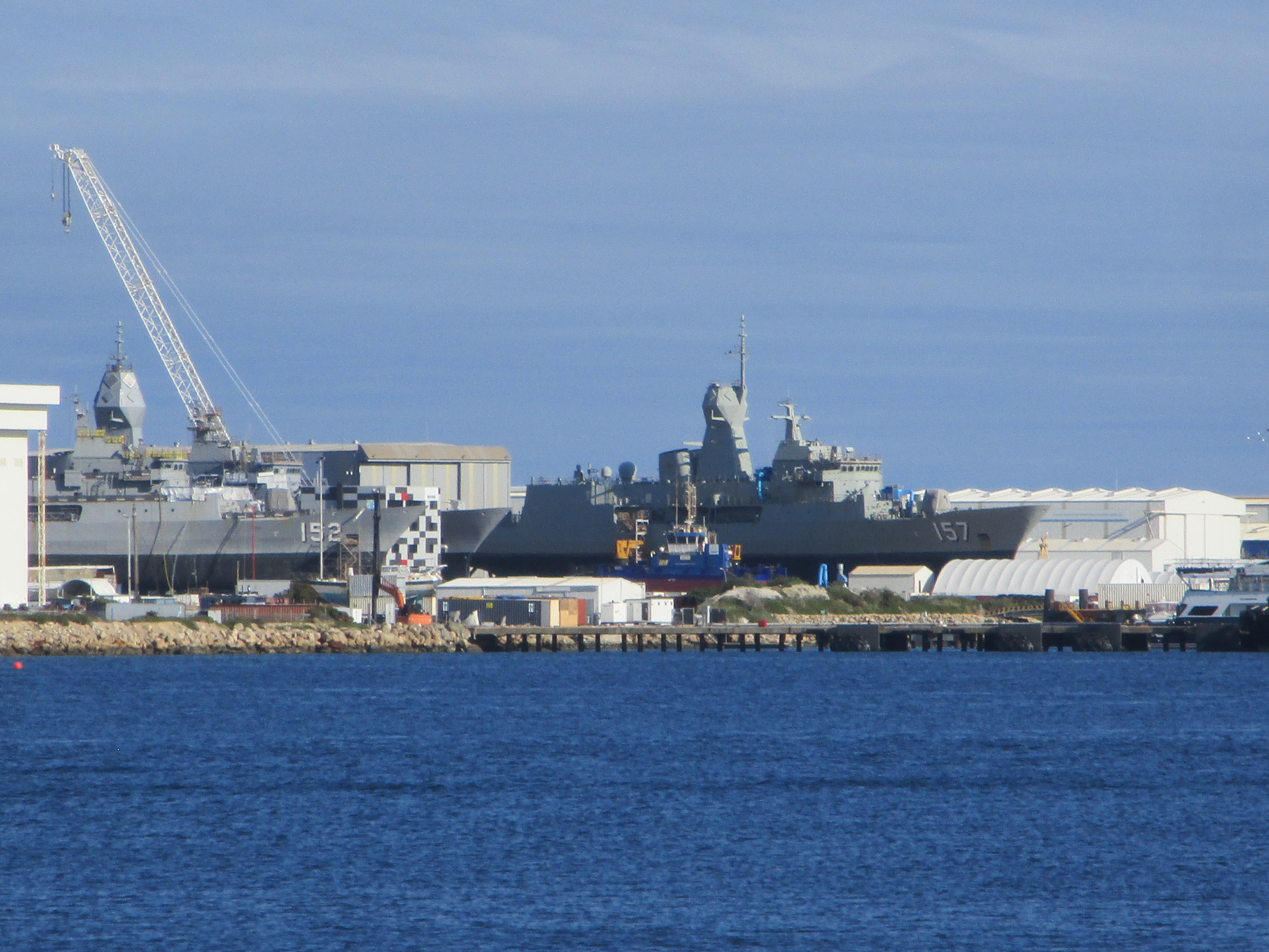 HMAS Warramunga (FFH 152) and Perth (FFH 157) at the Australian Marine Complex, Henderson, Western Australia, undergoing the Anzac Mid-Life Capability Assurance Program. The image is taken from the northern sea wall of Jervoise Bay Boat Harbour. The third ship, hidden behind HMAS Warramunga, is the HMAS Anzac (FFH 150).